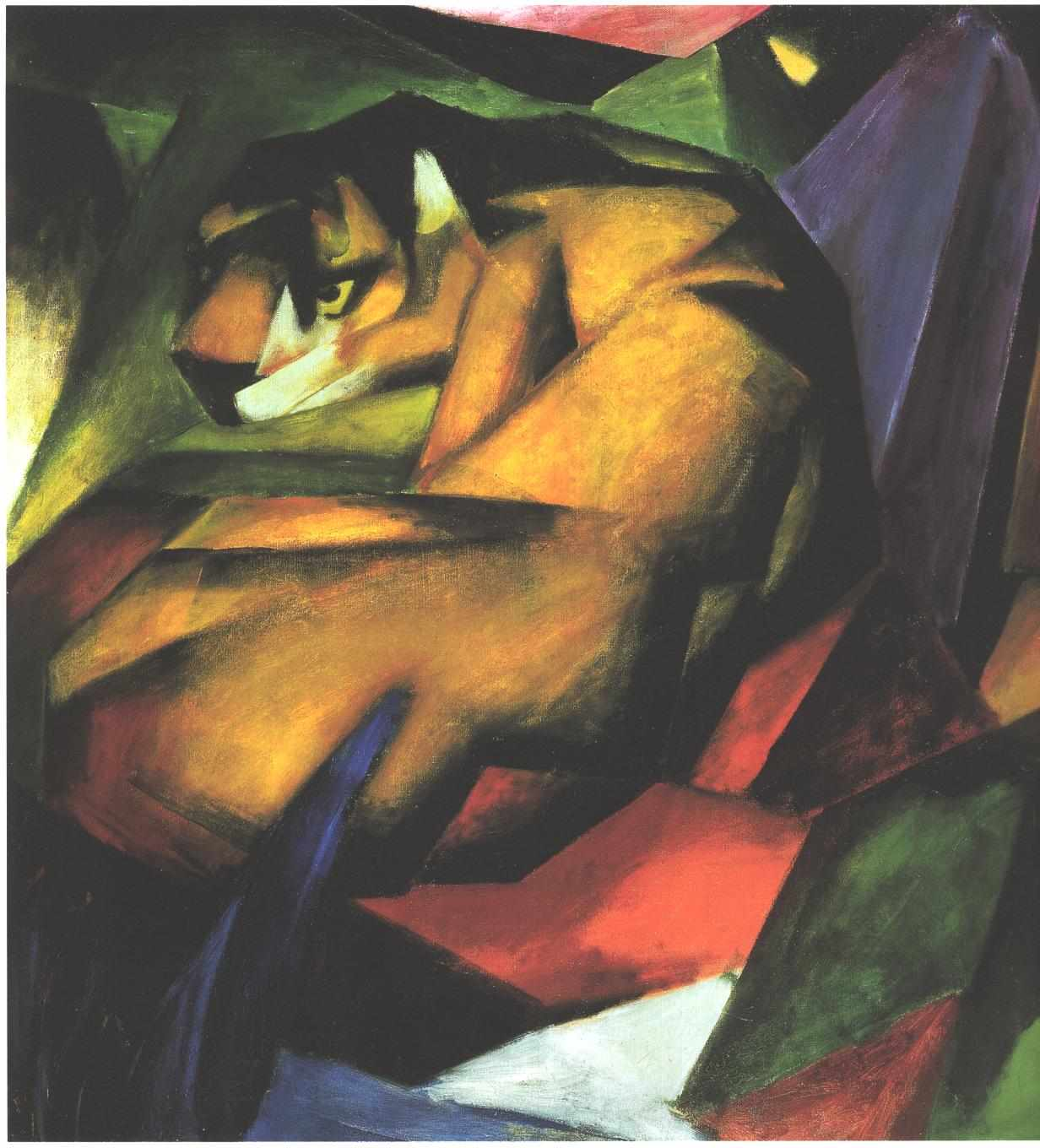 The Tiger